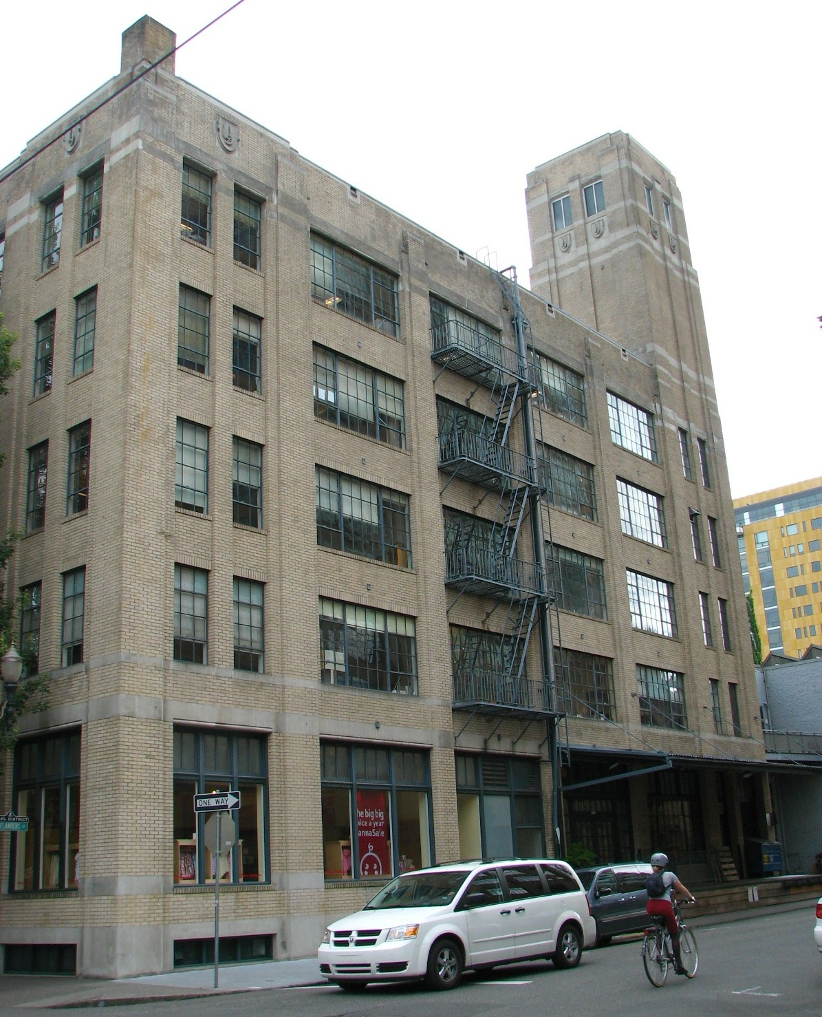 The historic Ballou and Wright Company Building (built 1921), located at 327 Northwest 10th Avenue in Portland, Oregon, United States, is listed on the US National Register of Historic Places.